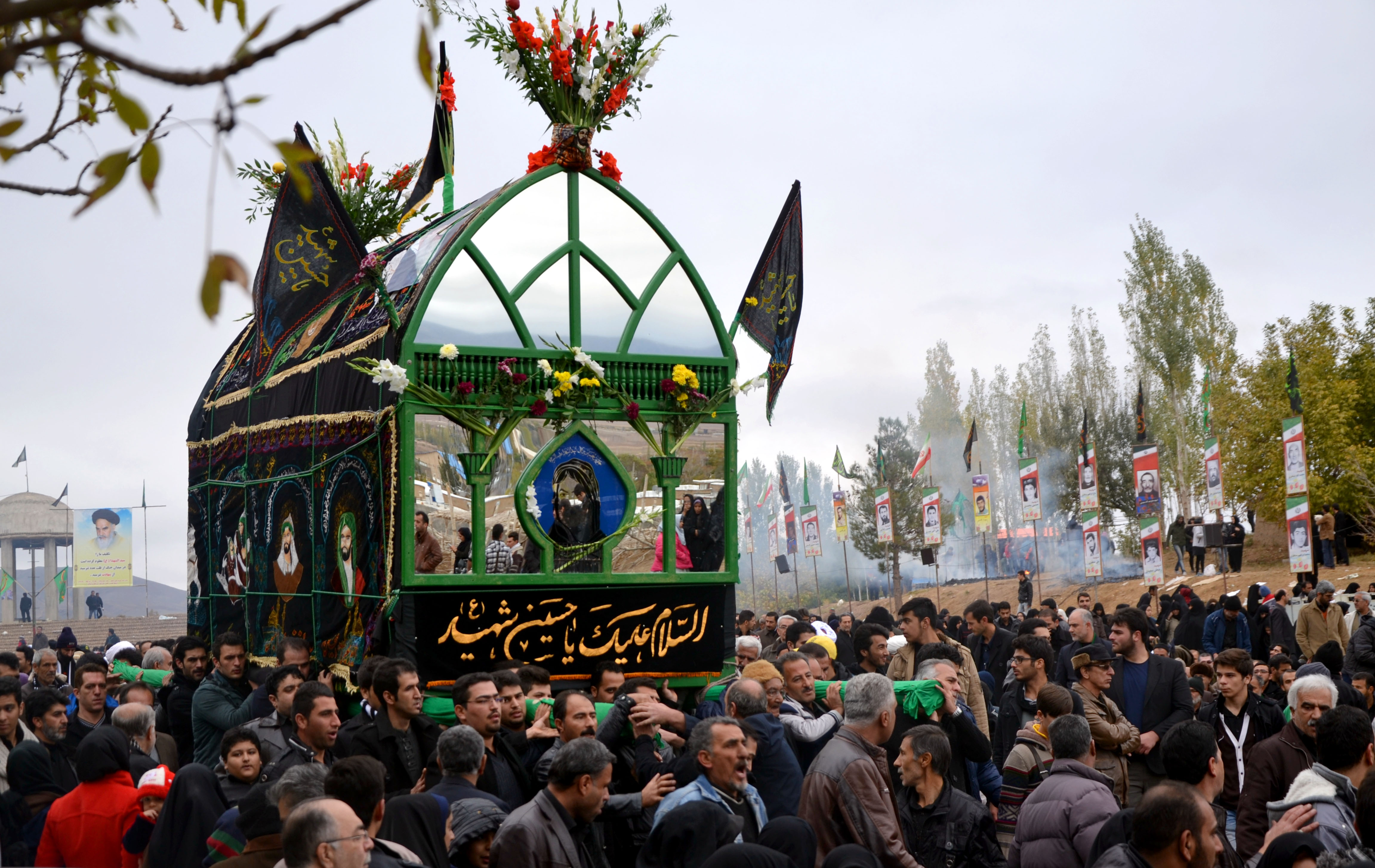 Mourning of Muharram is held in majority of cities and villages in Iran by Shia Muslims annually. Although all sort of ceremonies are performed for Imam Hossein and his followers martyrdom remembrance, they have different styles and rules referring to various cultures.